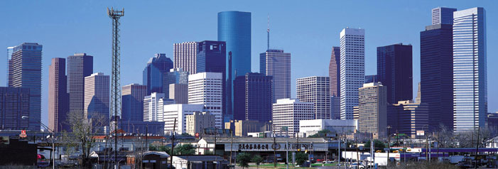 Daytime skyline of Houston.